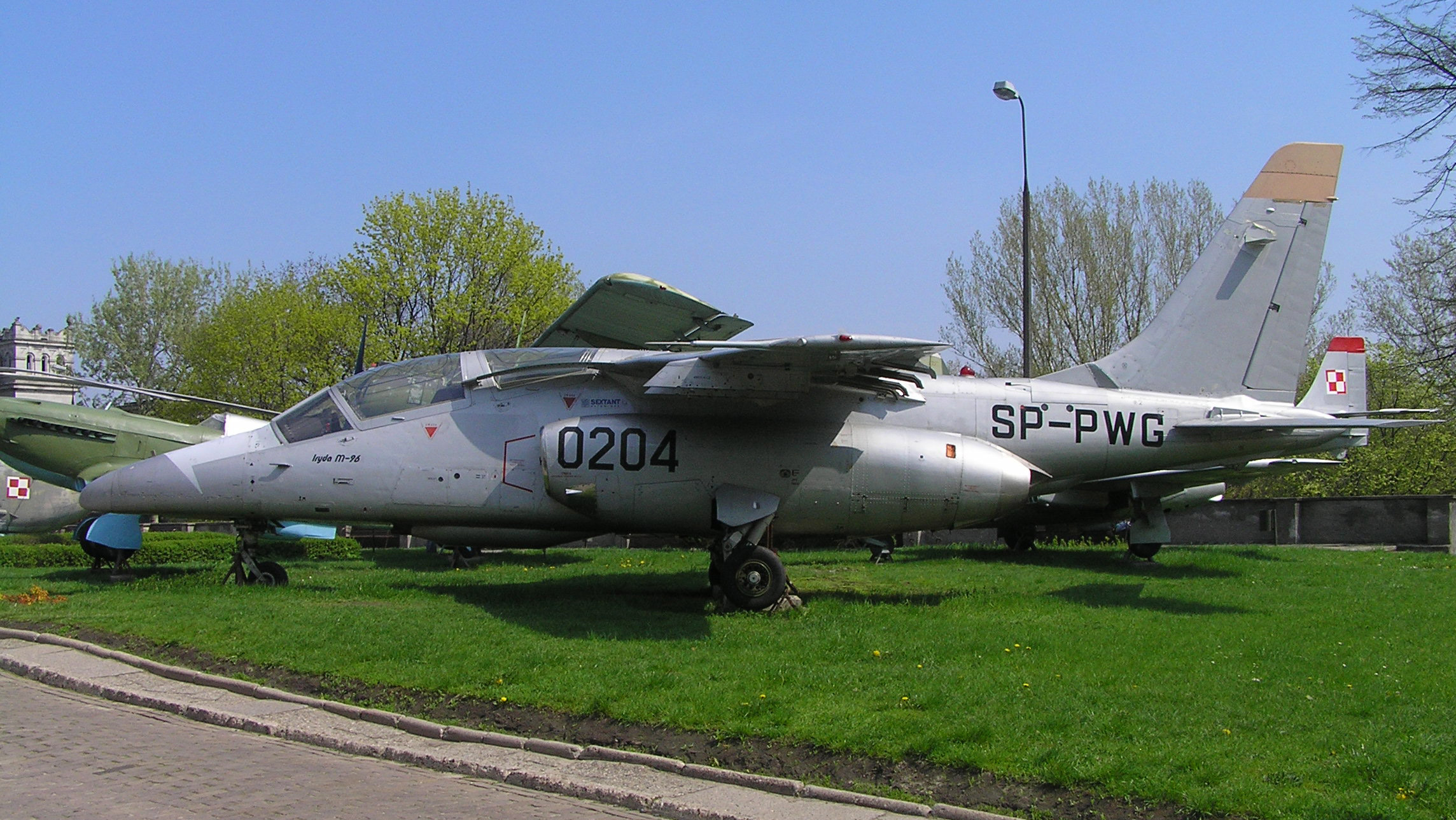 PZL I-22 Iryda - polish light attack and advanced trainer aircraft.